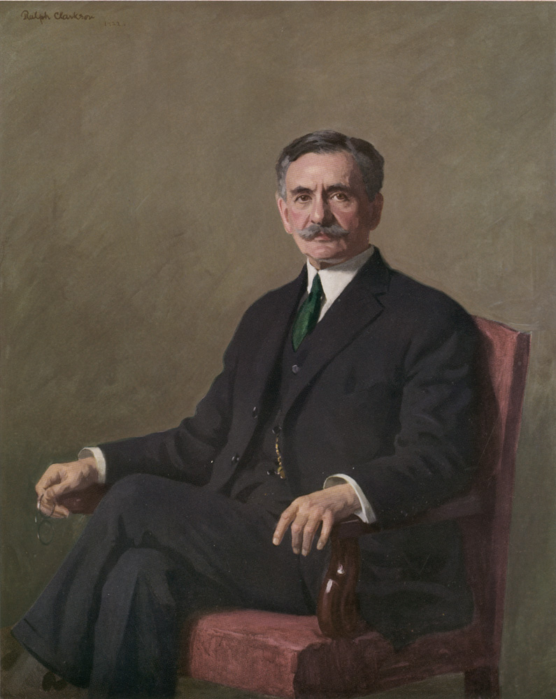 The physicist, Albert Michelson (1852-1931)